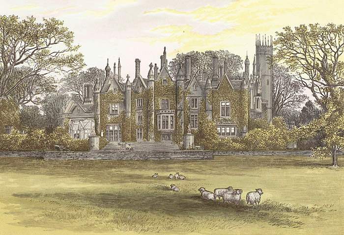 A view of a large mansion with sheep grazing in th foreground.